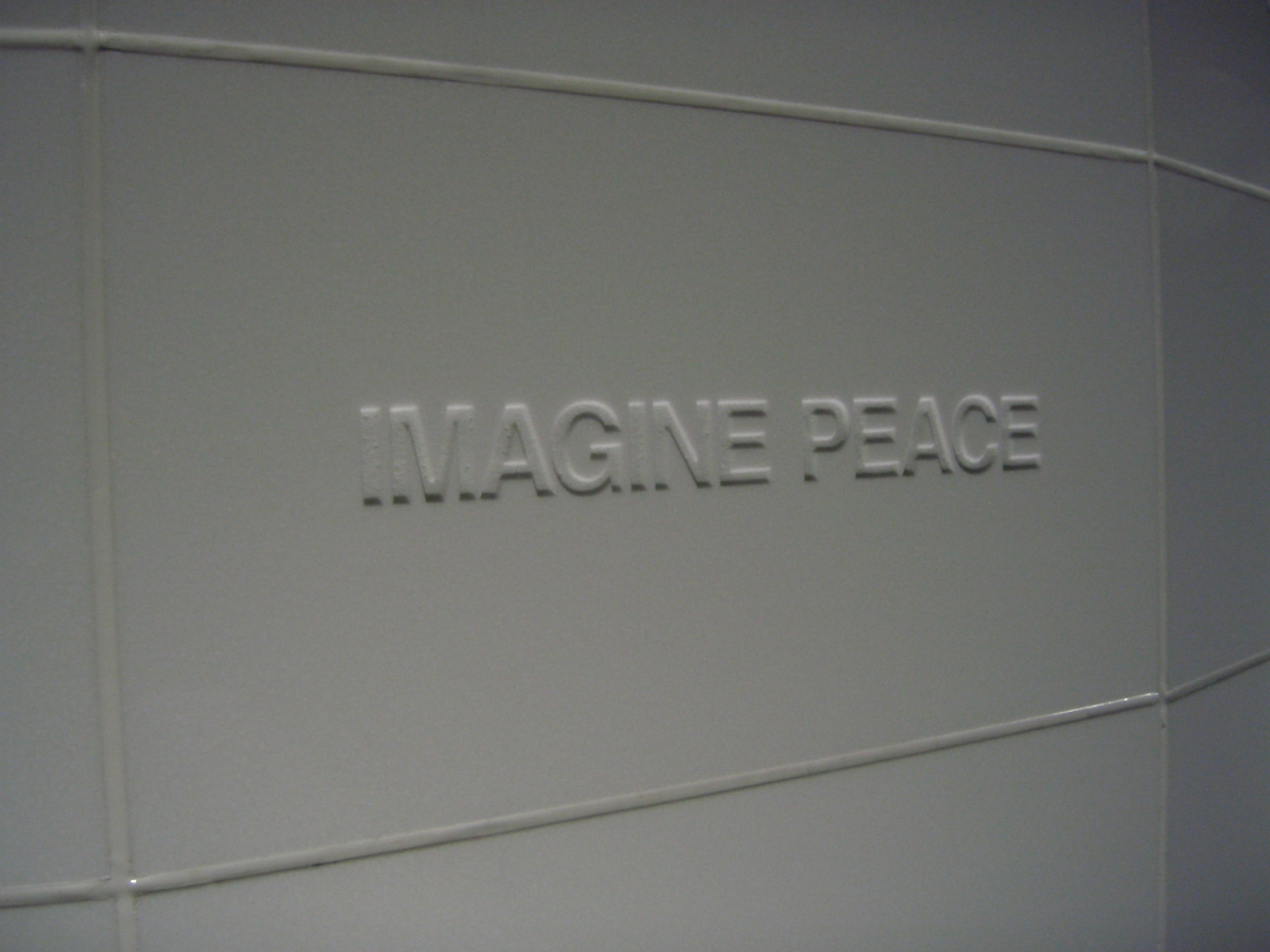 One of 25 languages that the words "Imagine Peace" is written on the Imagine Peace Tower in Iceland